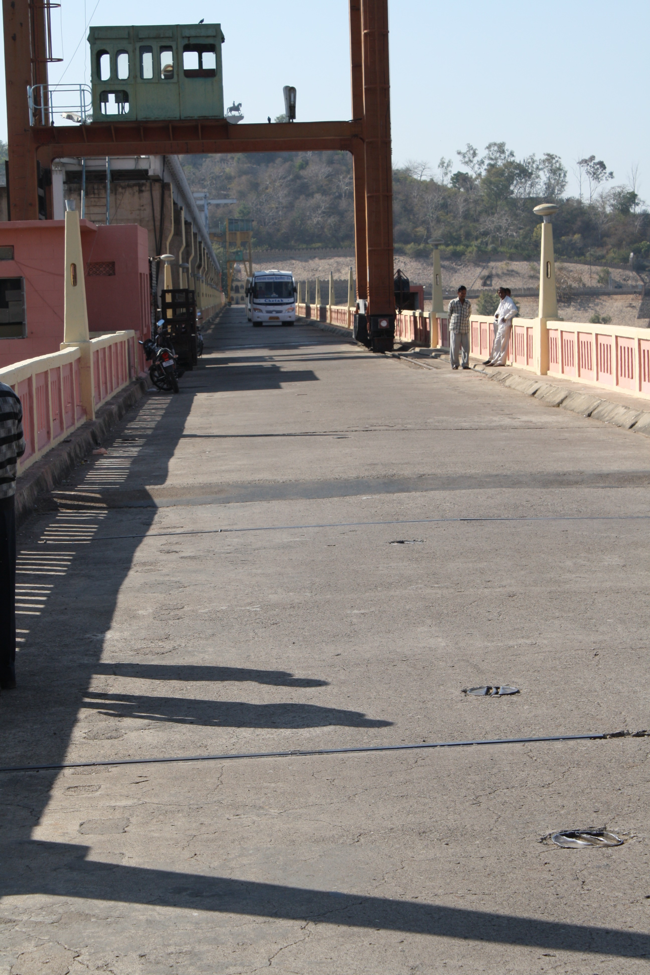 Road on top of Ranapratap Sagar Dam